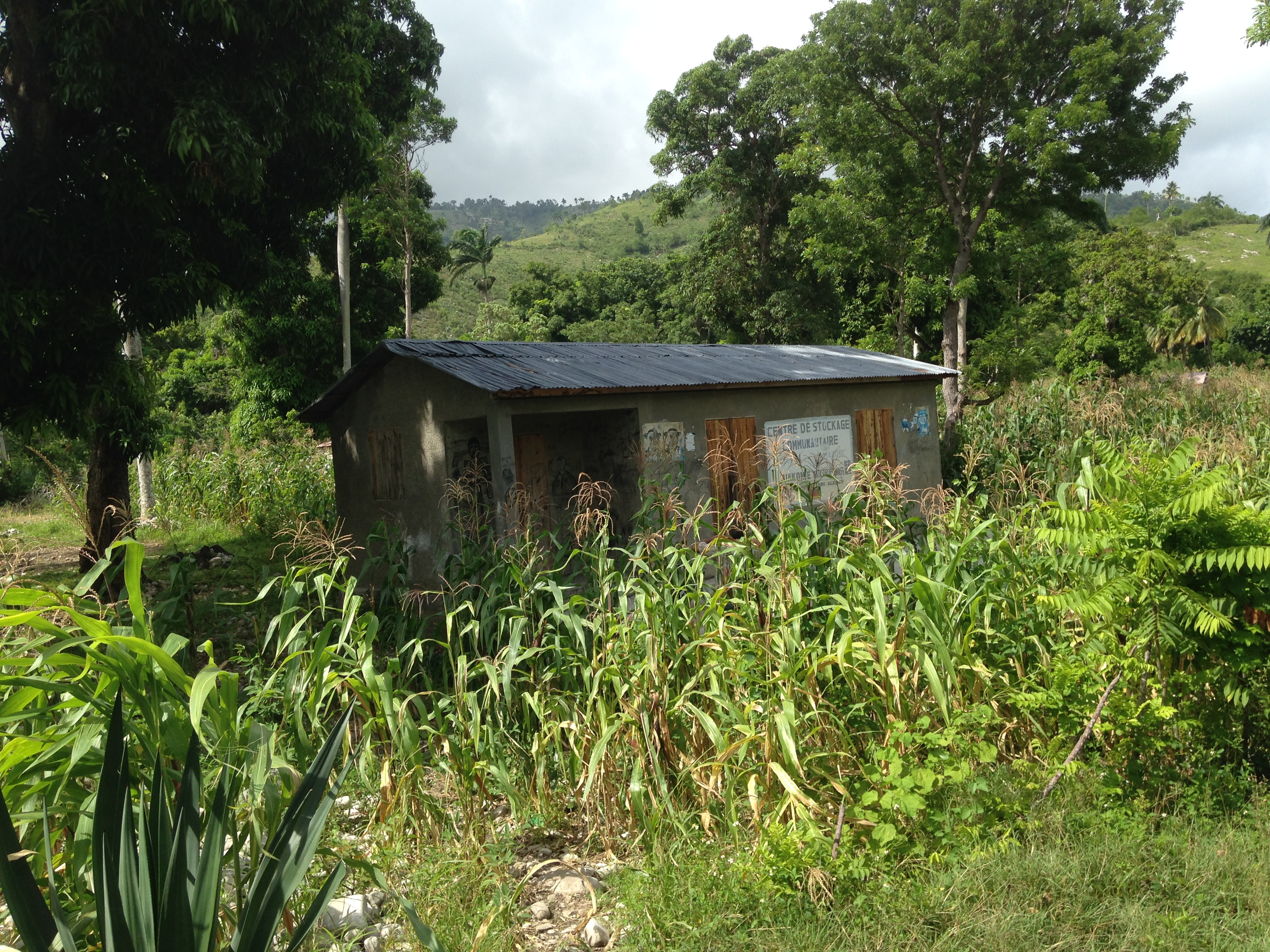 A storage centre in the hinterland of the Haitian municipality of Petit-Goâve. It was built by the German NGO Diakonie but remains unused.